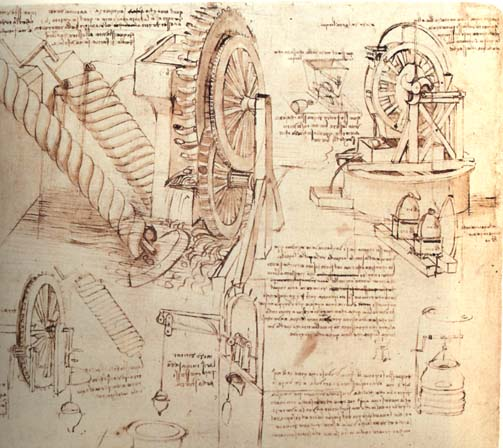 from Codex Atlanticus